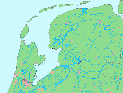 Location of a waterway (river/canal) in the Netherlends